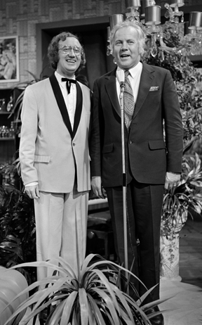 Fred Haché (Harry Touw) and Barend Servet (IJf Blokker) in the Fred Haché Show, 1972